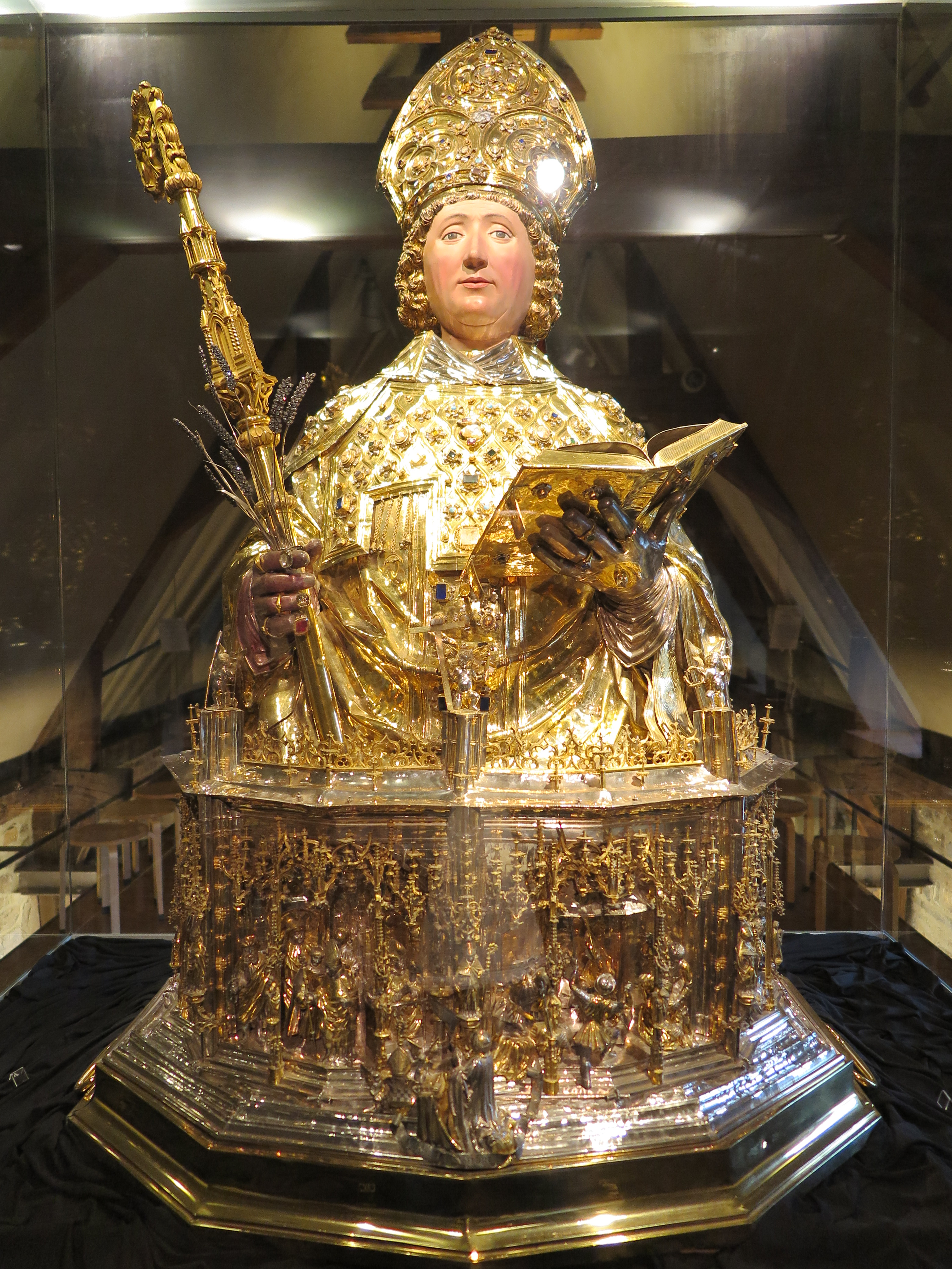 Reliquary of Saint Lambert, the largest late Gothic reliquary bust of Europe, in the treasury of St. Paul's Cathedral in Liège.